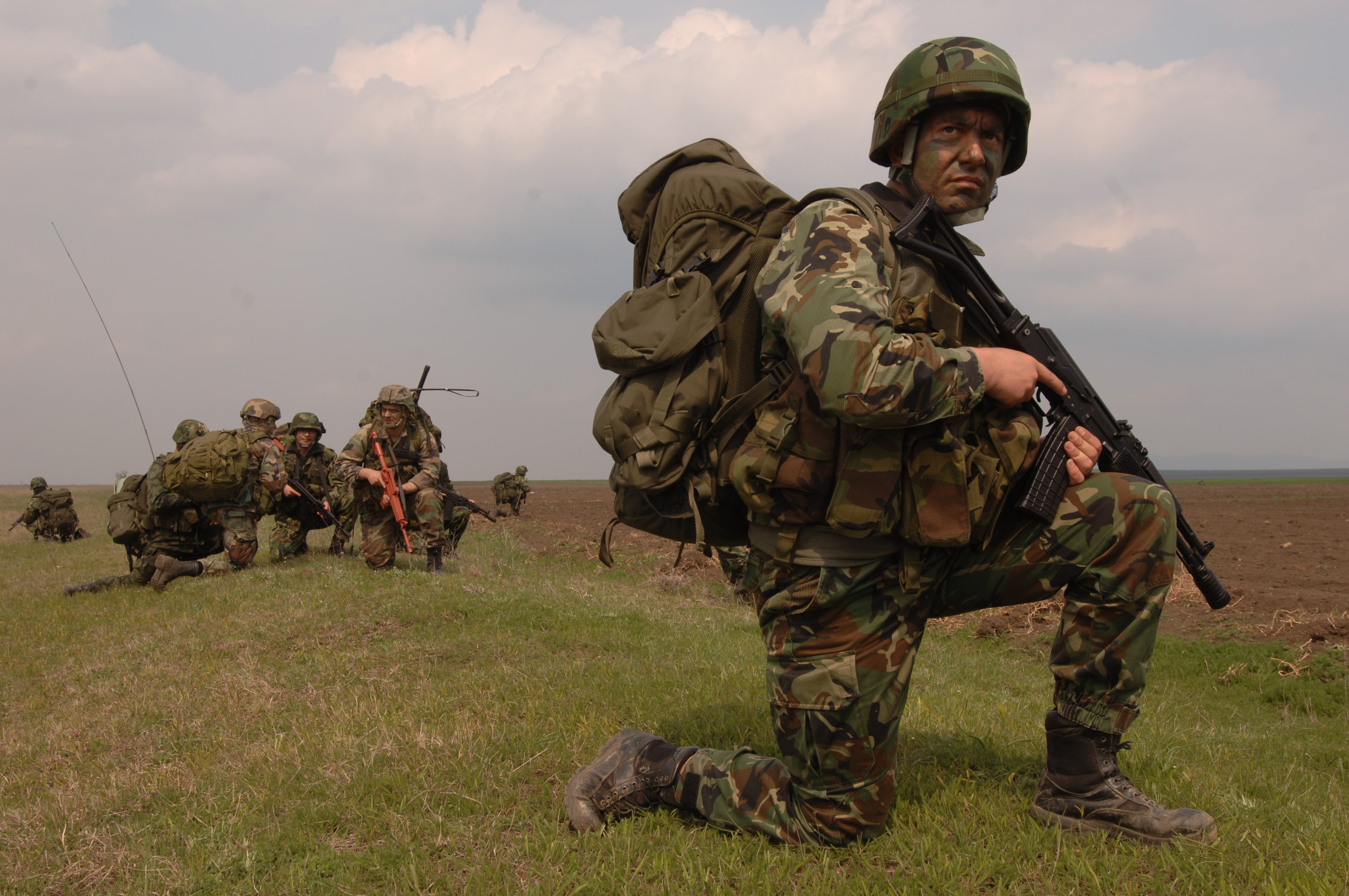 Bulgarian army paratrooper 2nd Lt. Rumen Lozanov, from the 1st Special Forces Battalion, conducts a combined ground assault with fellow soldiers and U.S. Air Force Airmen from the 86th Contingency Response Group during exercise Thracian Spring 2008 at Bezmer Air Base, Bulgaria, April 3, 2008. The annual bilateral training exercise between the United States and Bulgaria provides training and improves interoperability between the two nations. (U.S. Air Force photo by Master Sgt. Scott Wagers) (Released) Note:Weapon is an ARM-2F